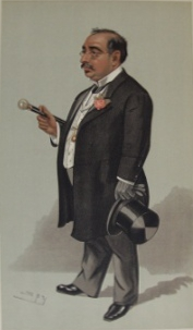 Caricature of Sir MM Bhownaggree KCIE MP. Caption read "North East Bethnal Green".